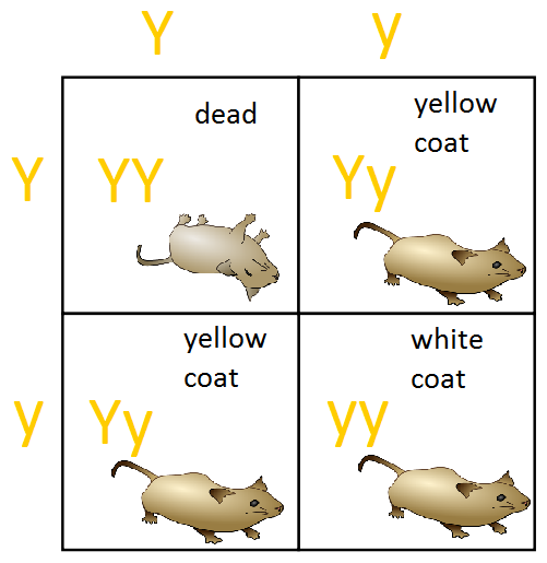 Punnett square illustrating the lethal yellow coat allele in mice.